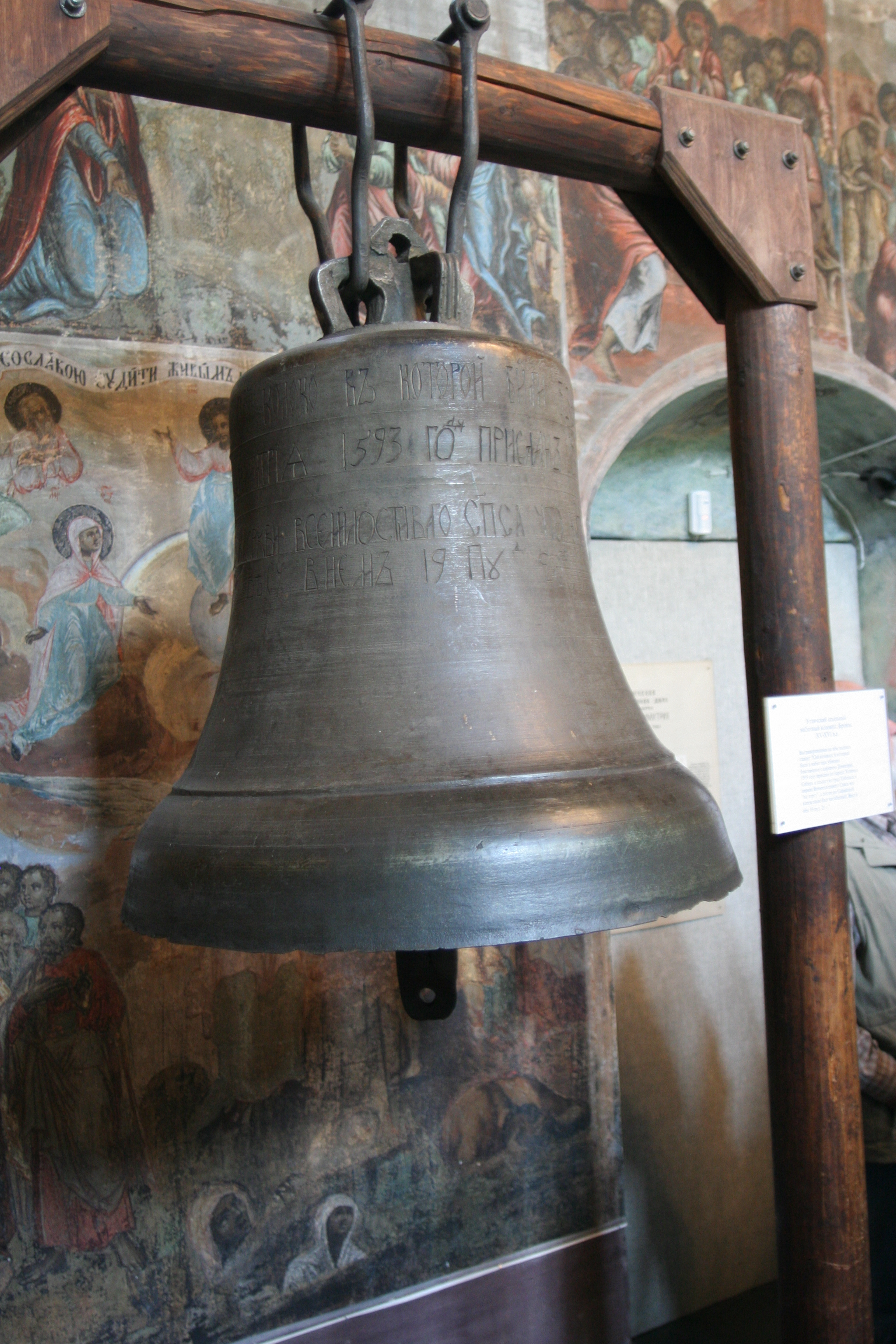 Dimitrij church Uglich. Bell wich was calling people after the murdering of Dimitrij. This bell was also banned to Siberia.